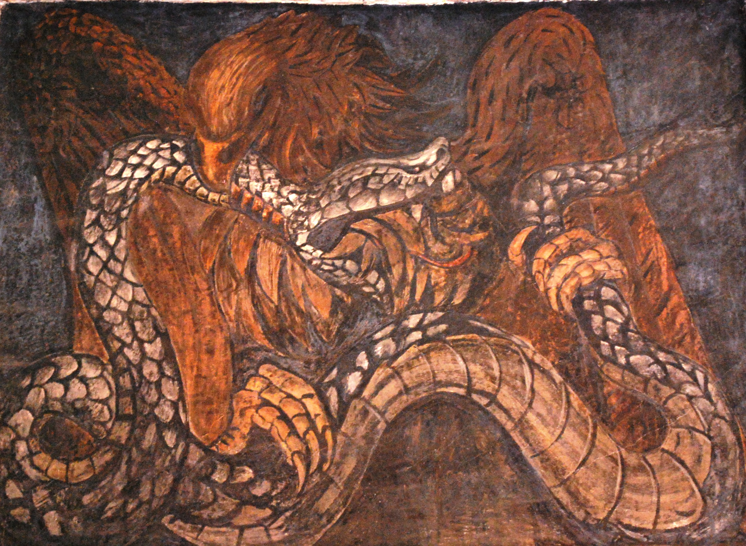 Mural "Eagle and snake of the Mexican national emblem" by Jean Charlot located on one of the walls of San Ildefonso College located in the historic center of Mexico City.